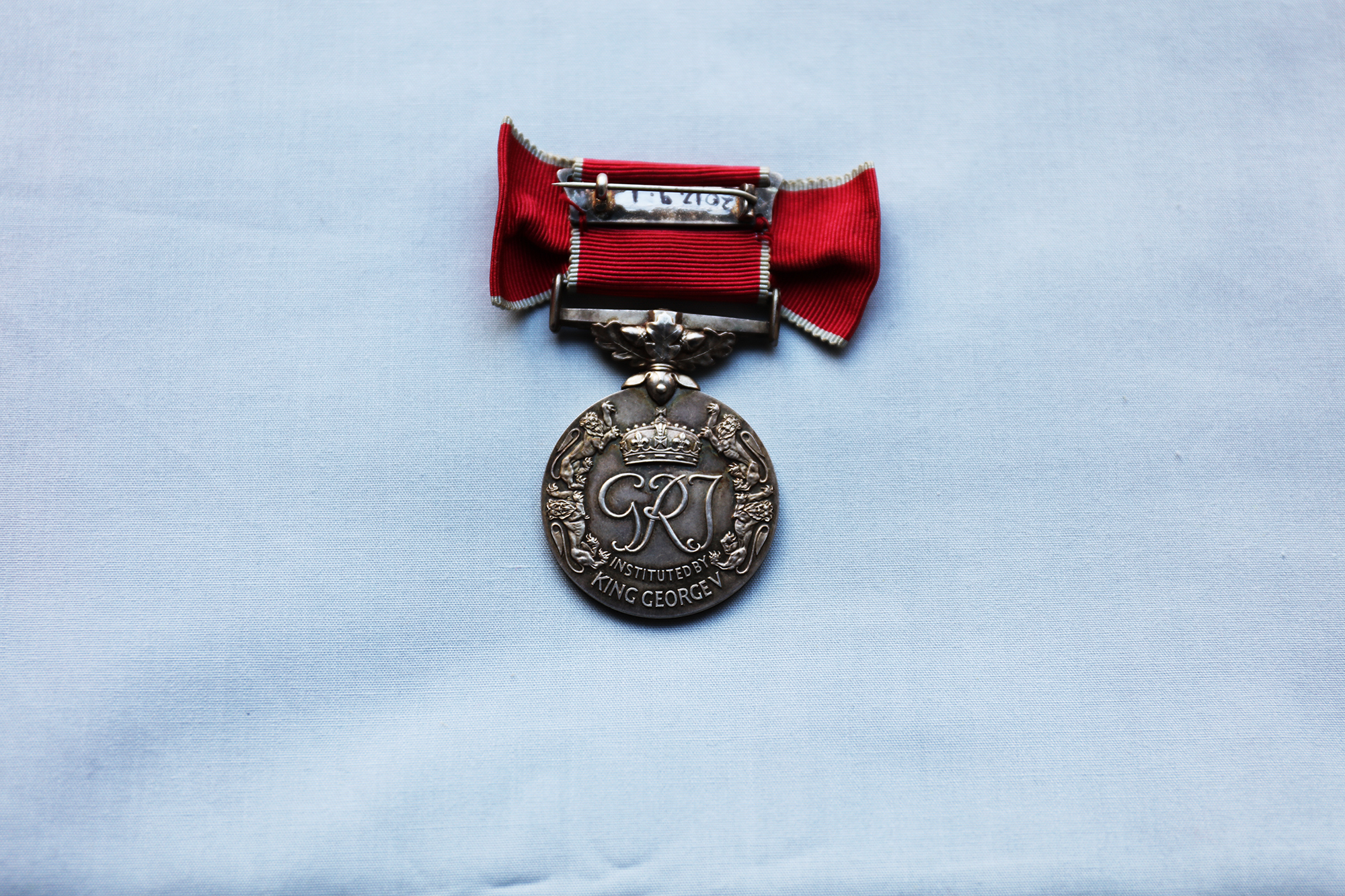 The reverse of Attridge's medal, awarded in 1946 for services to the war effort